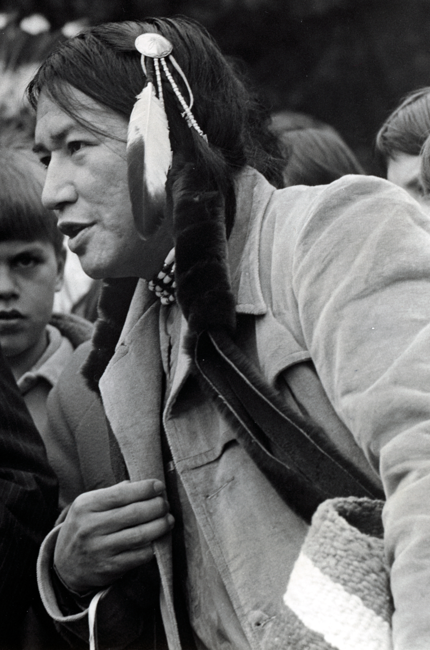 Bernie Whitebear speaking to Senator Henry M. Jackson (not shown in this crop) during the dedication ceremony for the lease agreement held at Fort Lawton, November 14, 1971, which led to the foundation of Daybreak Star Cultural Center.